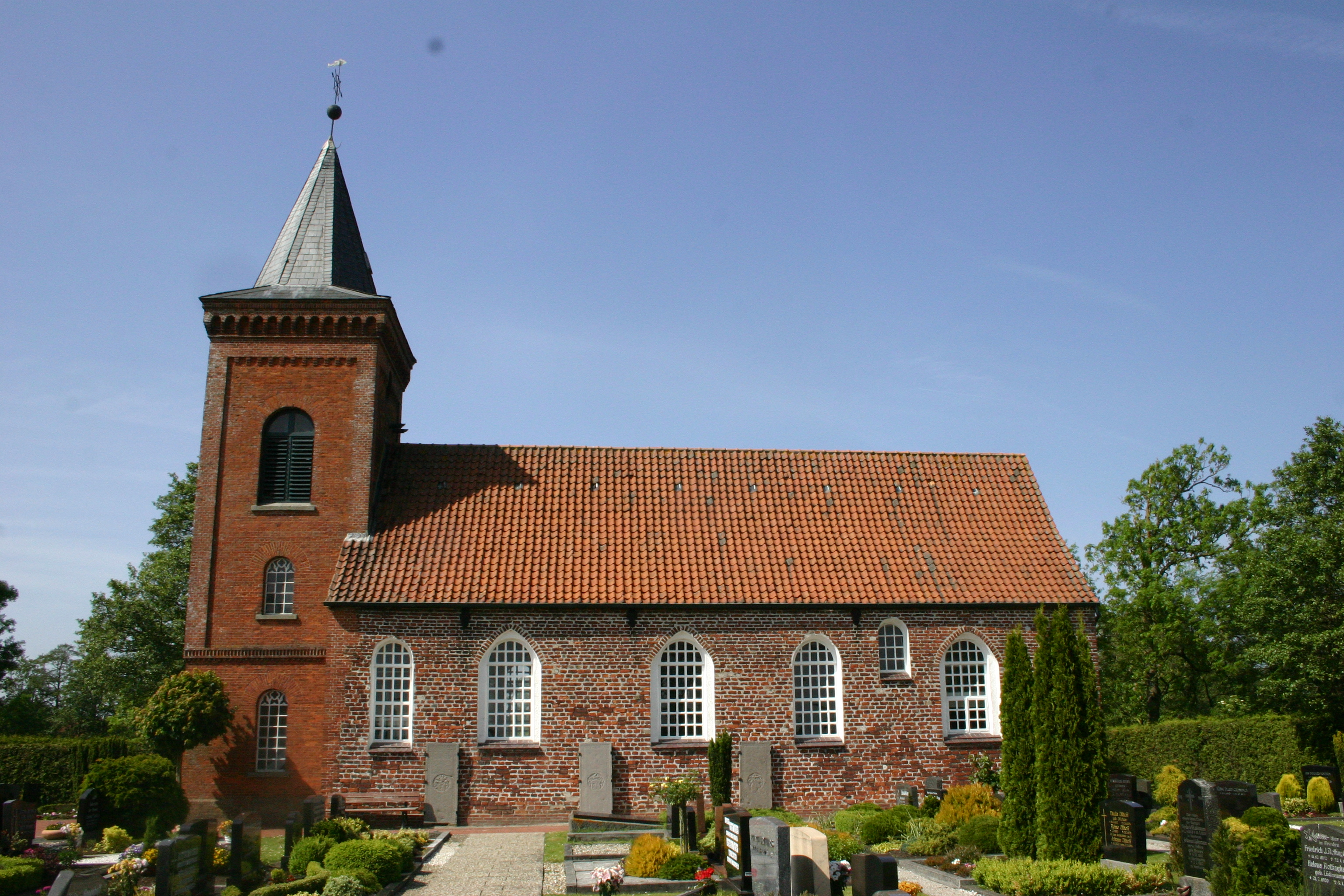 Historic church in Veenhusen, Leer district, East Frisia, Germany